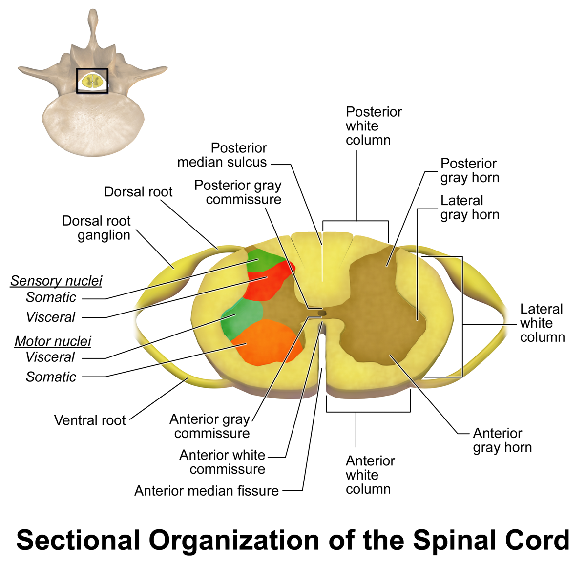 Spinal Cord Sectional Anatomy. Animation in the reference.[1]